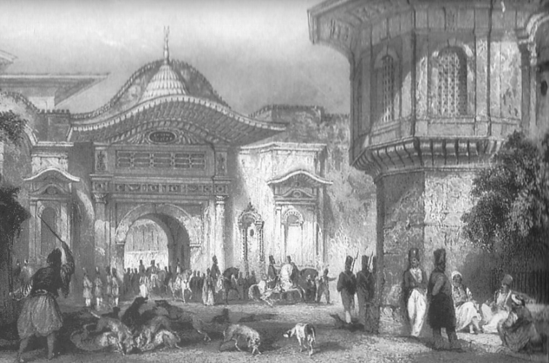 Entrance to the Divine Portal, Istanbul. Thomas Allom, c1840, The Enterance to Divan.png